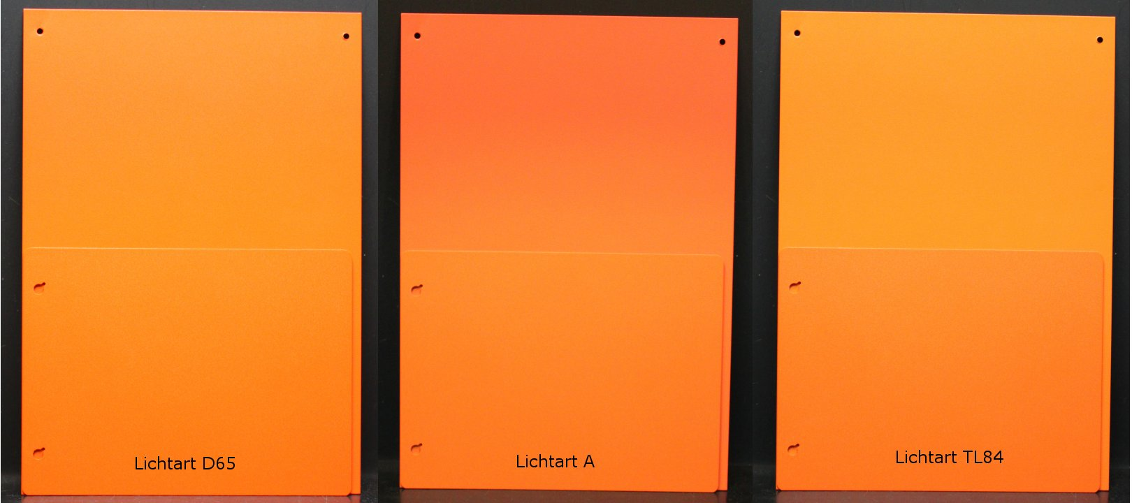 Example of metamerism (color). 2 powder coated panels with different pigmentation, each visualized under 3 different illuminants (D65, A, TL84)